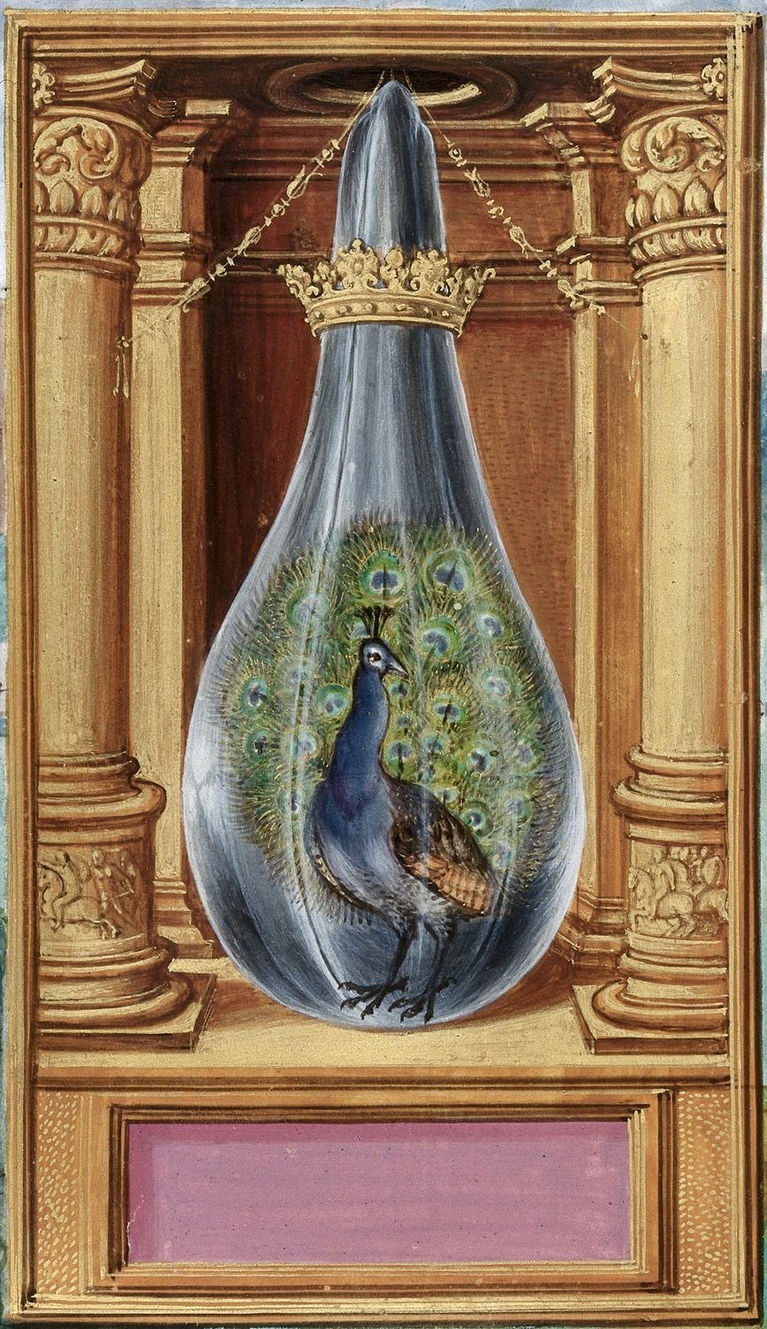 Detail of a miniature of a peacock in a flask. Image taken from f. 28 of Splendor Solis (an alchemical treatise) (index Splendor of the Sun). Written in German.